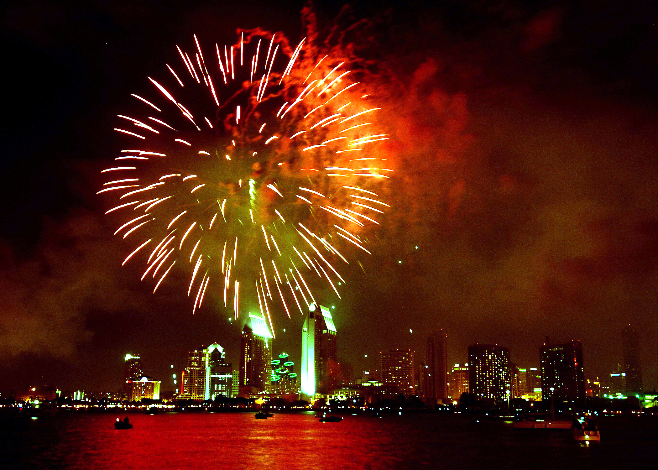 San Diego, Calif. (July 4, 2005) - Fireworks light up the San Diego skyline during a 4th of July celebration. The 20-minute display was launched from a barge moored in San Diego Bay. U.S. Navy photo by Photographer’s Mate 2nd Class Scott Taylor (RELEASED)